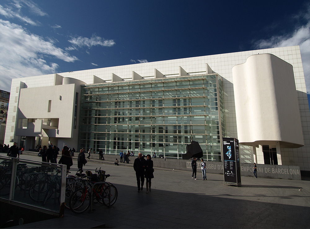 Barcelona Museum of Contemporary Art (MACBA)